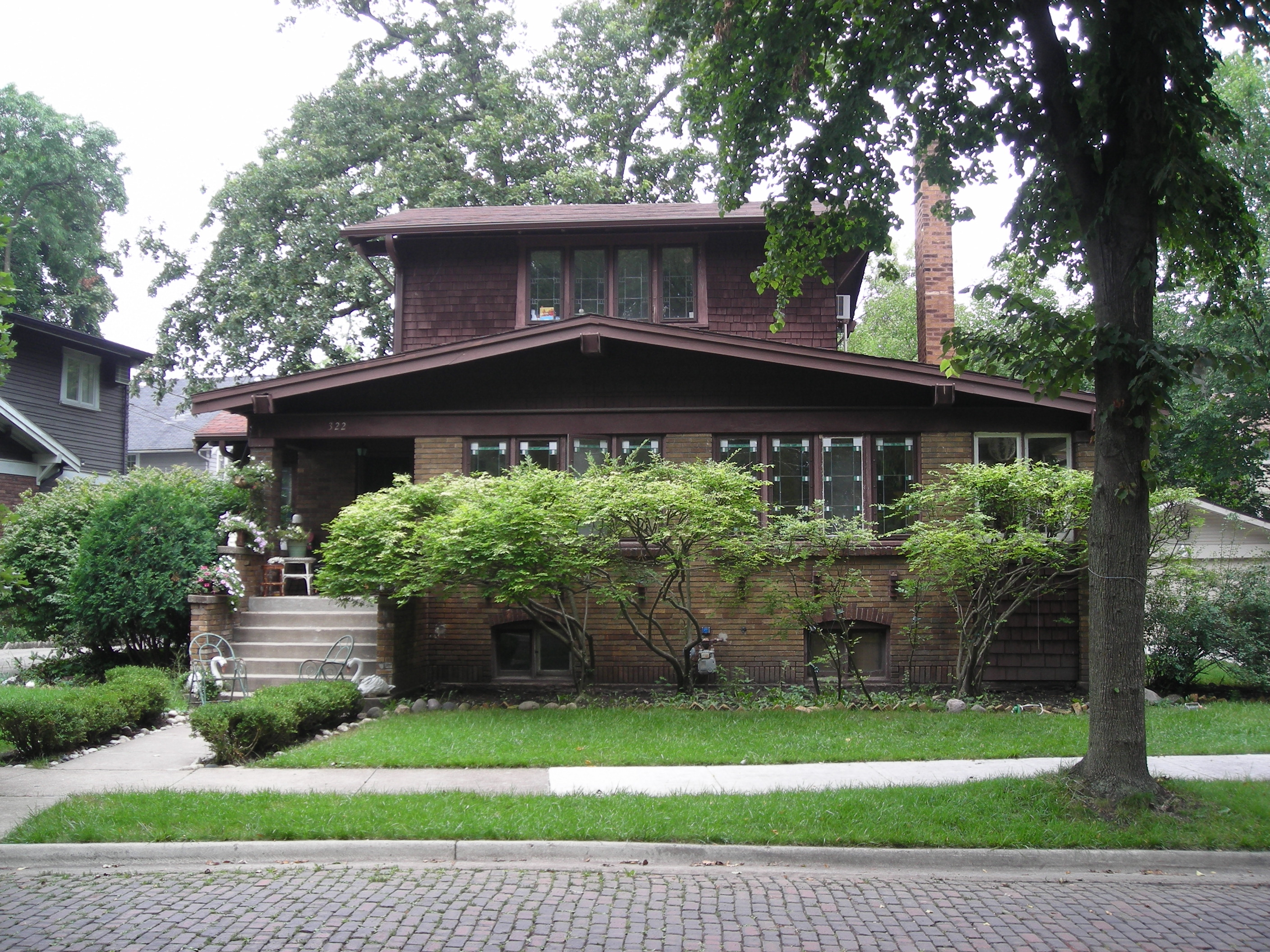 322 Oak Circle. Oak Circle Historic District. Wilmette, Illinois. National Register of Historic Places.